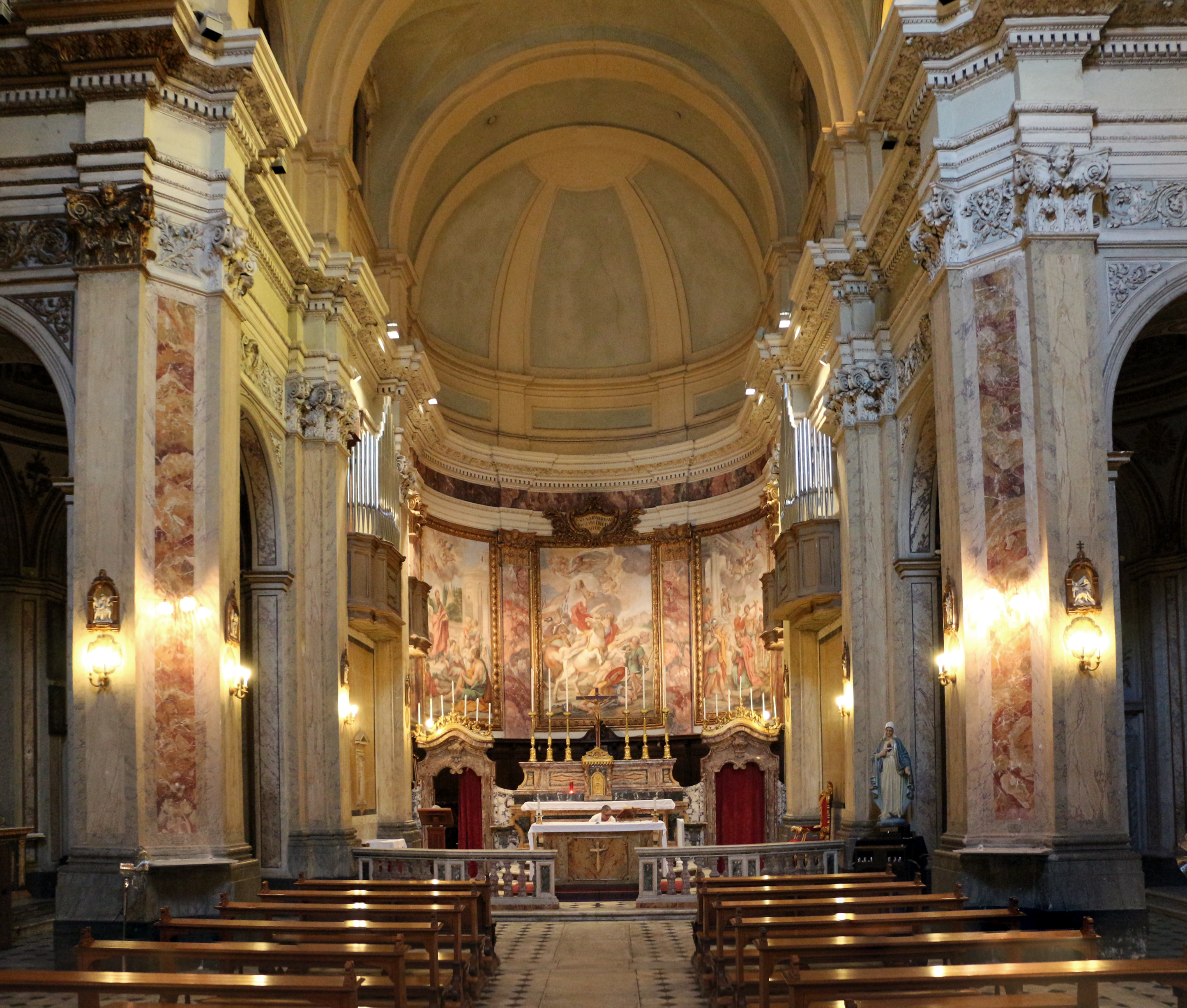 Basilica dei Santi Apostoli (Rome)